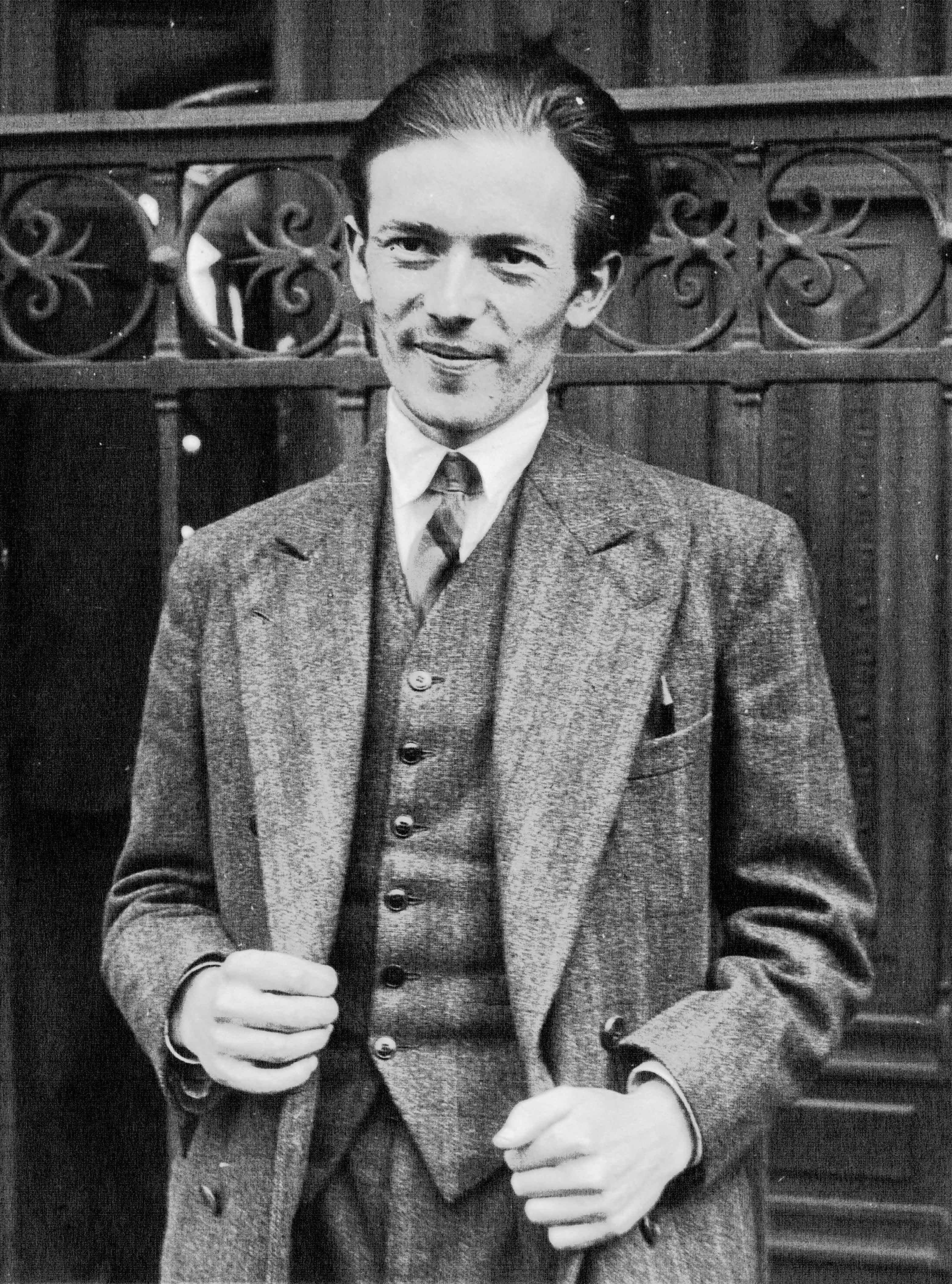 French sculptor André Bizette-Lindet (1906-1988) on his receiving the Prix de Rome in 1930.